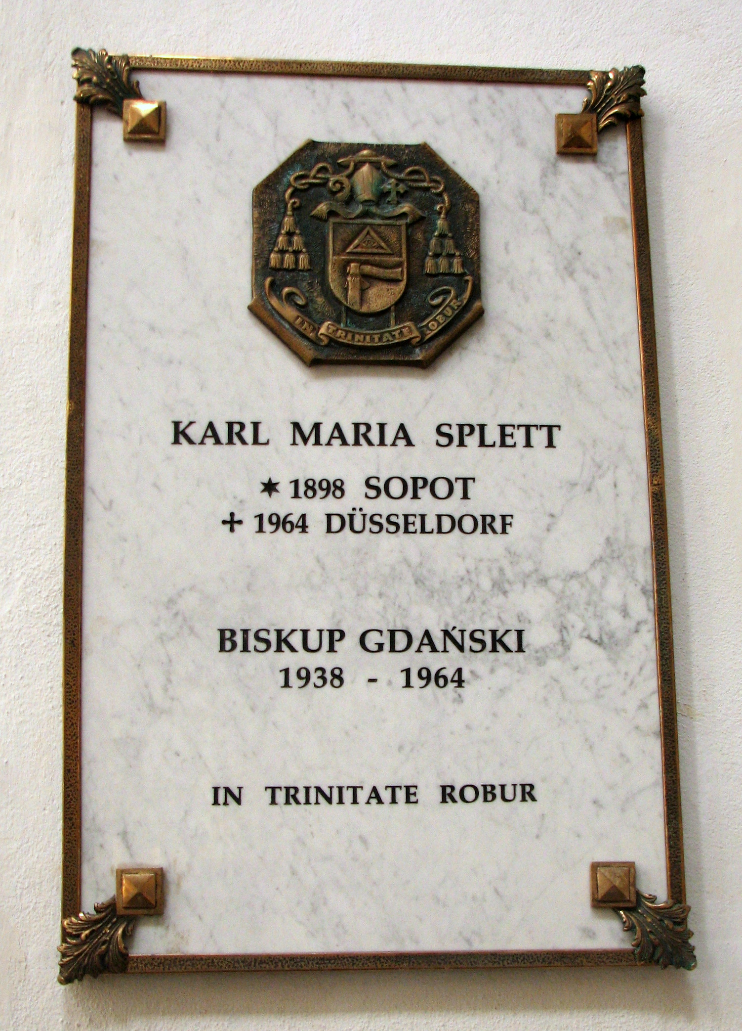 Plaque to bishop Karol Maria Splett in Oliwa Cathedral in Gdańsk.